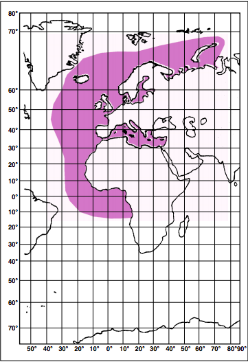 squid